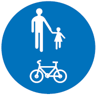 Luxembourg road sign diagram